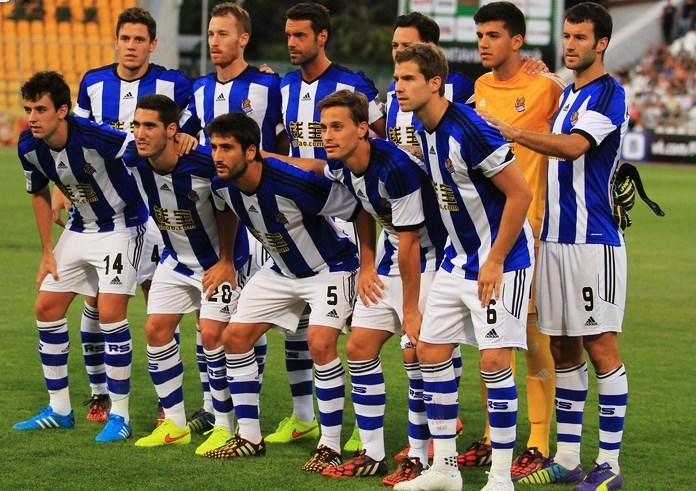 Real Sociedad 08.2014